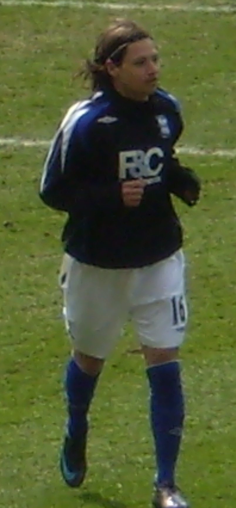 Argentina U-20 football (soccer) striker Mauro Zárate of Birmingham City F.C. warms up at half time in Premier League match against Everton F.C.